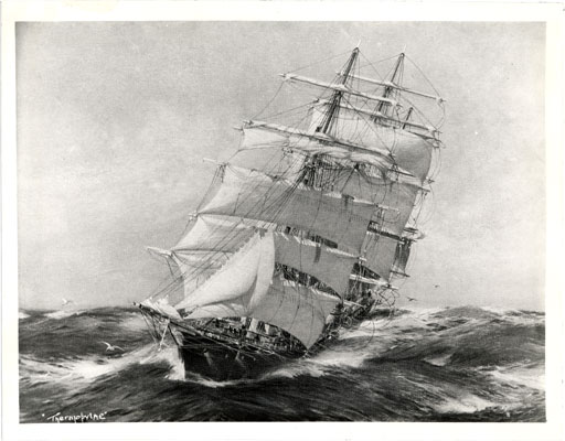 Painting of clipper ship "Thermopylae. 1 photographic print: b&w. Written on back: "Thermopylae. Builder: Walter Hood, Aberdeen, 1868. Dimensions: 210 x 36 x 20. Tonnage: 991 tons. Type: Wooden Clipper Ship. Full name: Thermopylae (later Pedro Nunez)." Written on front: "Thermopylae."